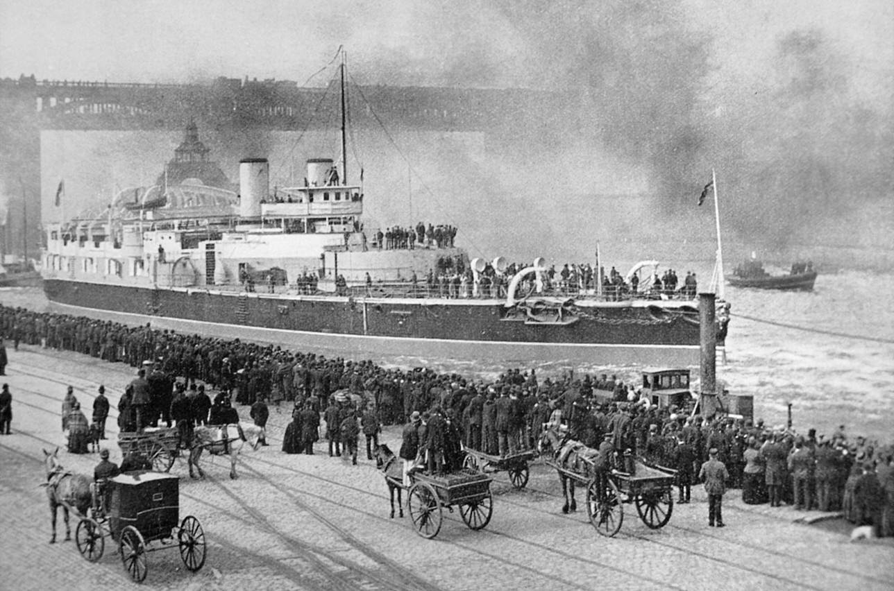 Royal Navy battleship HMS Victoria being towed down the River Tyne from the Armstrong, Mitchell & Co. shipyard at Elswick.